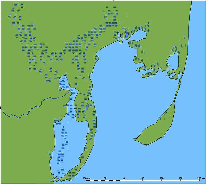 Map of Ghizil-Agaj reserve of Azerbaijan